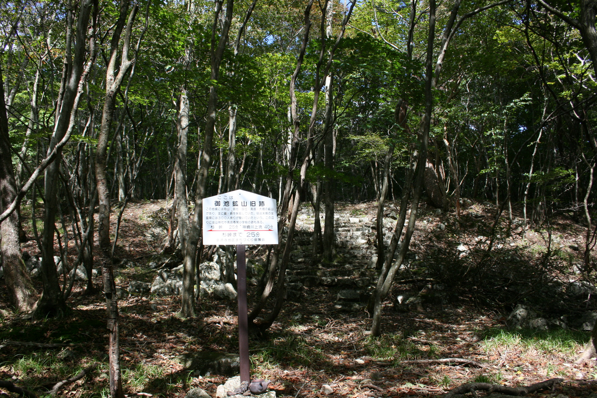 Oike Mines ruins around Mount Amagoi, of Suzuka Mountains, Japan.